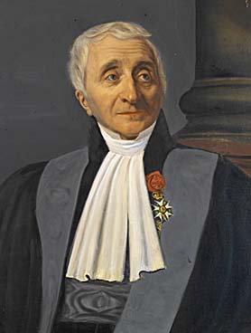 Portrait of Joseph Diaz Gergonne (1771-1859)